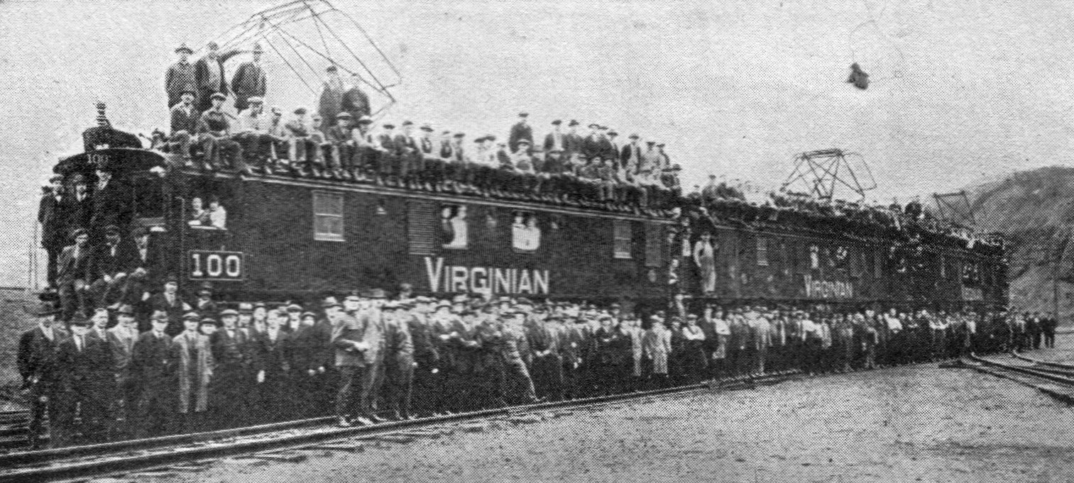 A Huge Electric Locomotive By reason of its great length, 152 feet, it is built in three sections to enable it to round curves. Each unit contains two motors, so that there are really six engines in one. One of the 36 original ALCO / Westinghouse overhead electric units for the Virginian Railway, intended for 3,000 ton coal trains.